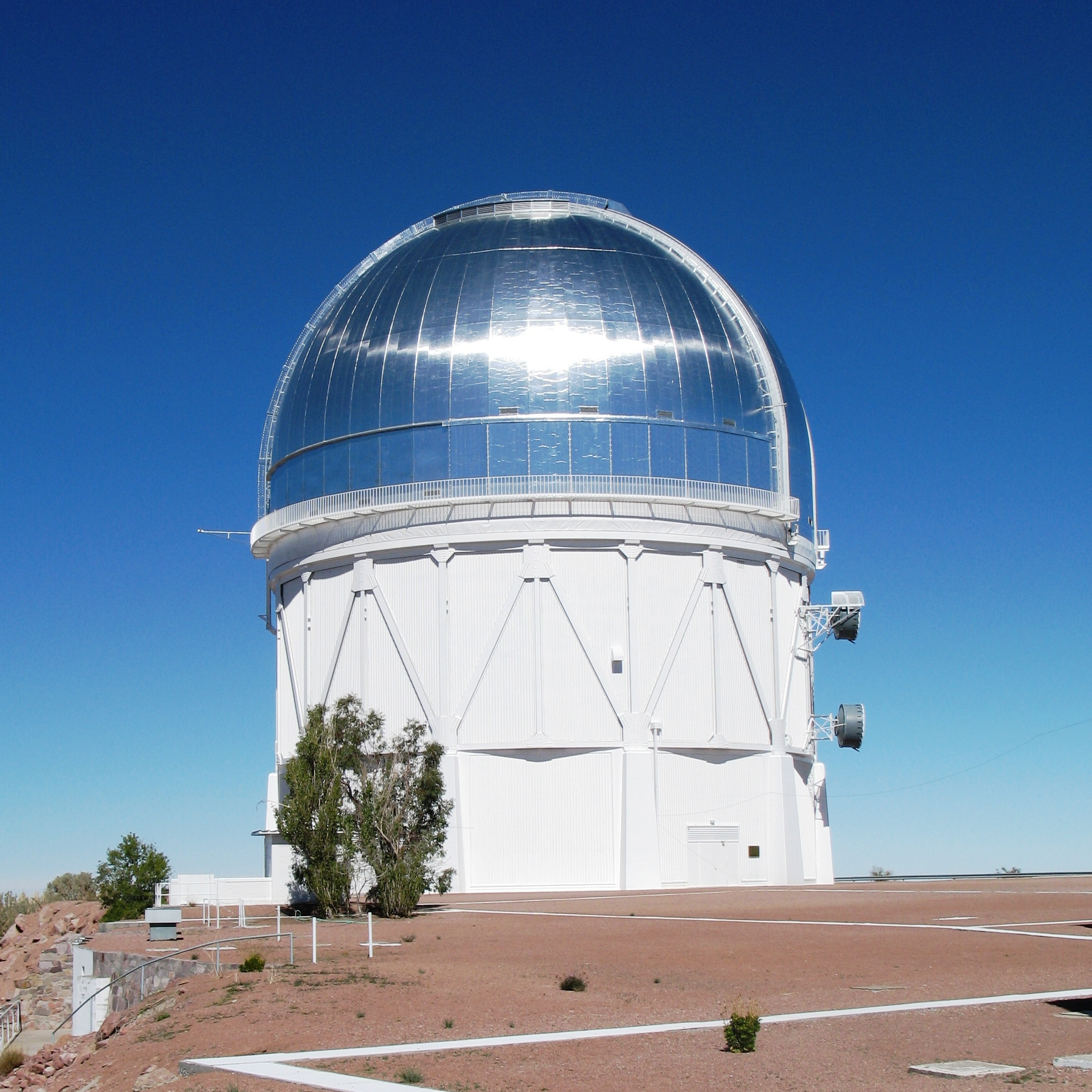 Cropped from File:4m-Victor M. Blanco Telescope.jpg. Taken by David Walker while working on Cerro Tololo (Photo taken by David Walker) Original upload log The original description page was here. All following user names refer to en.wikipedia. 2005-12-29 22:16 David walker 2304×3072×8 (3024264 bytes) Taken by David Walker while working on Cerro Tololo (Photo taken by David Walker)